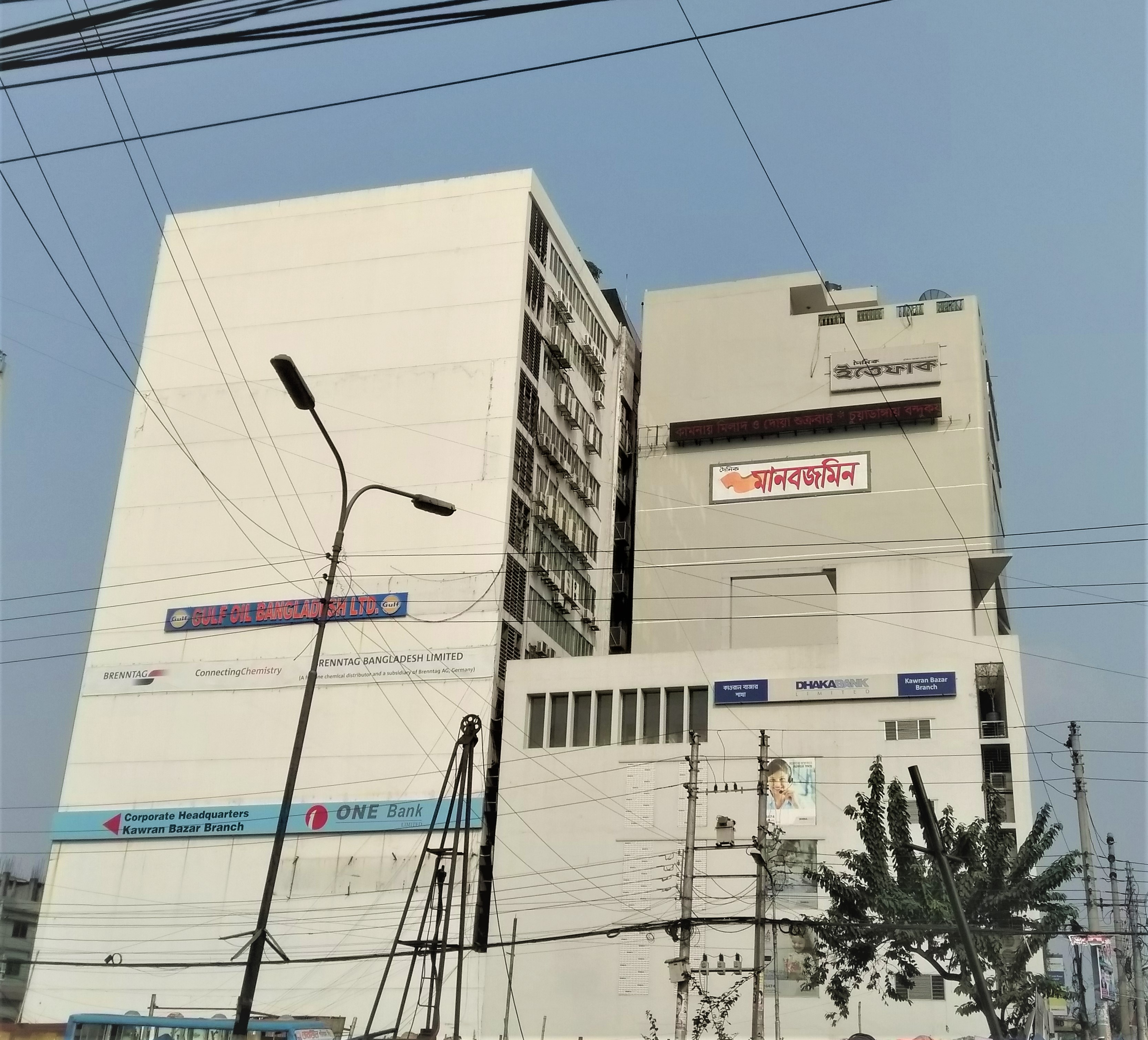 Headquarter of Daily Ittefaq and Daily Manab Zamin, 40 Zenith Tower, Kawran Bazar, Dhaka.